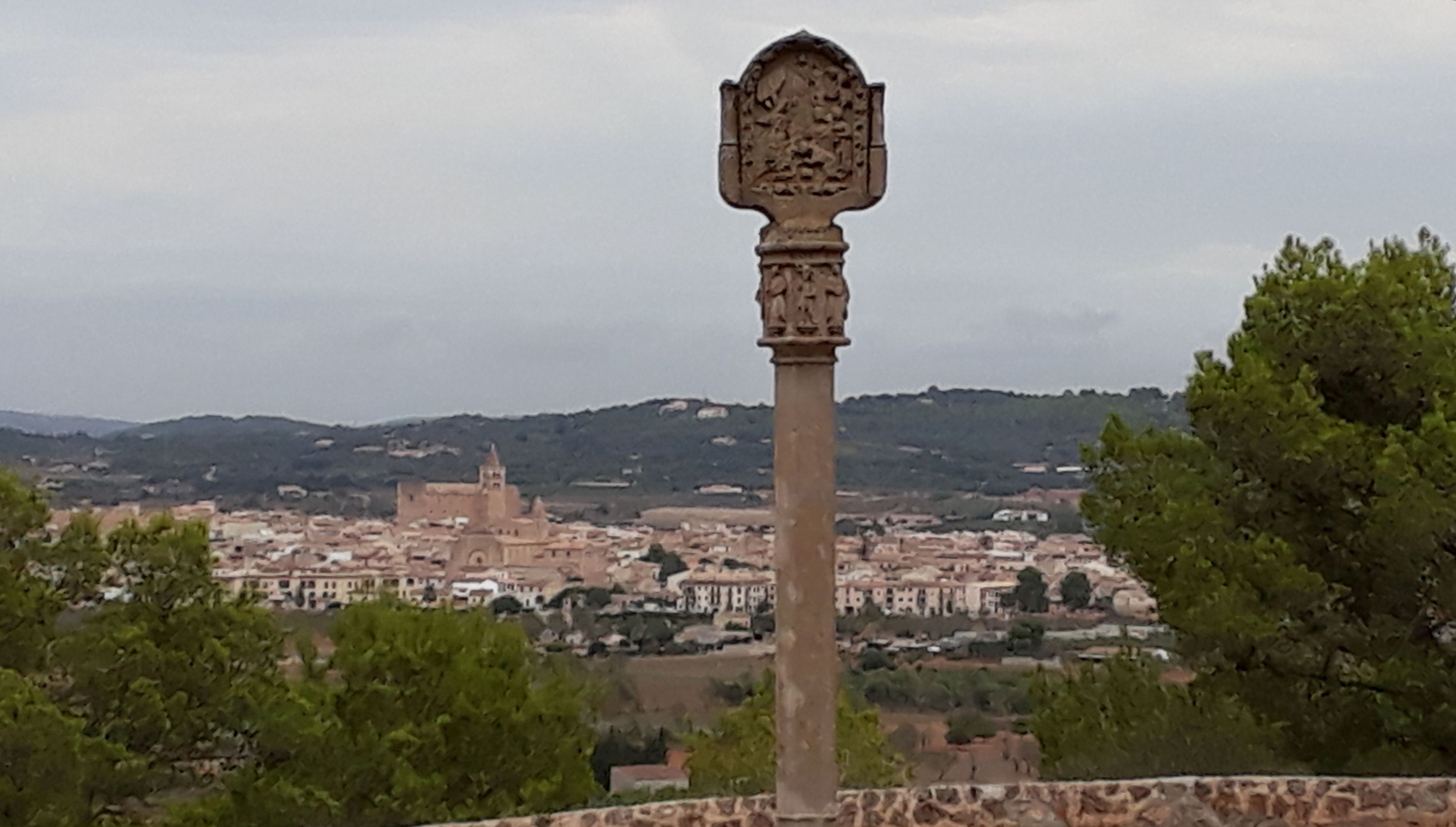 View from Monti Sión to Porreres in Mallorca.